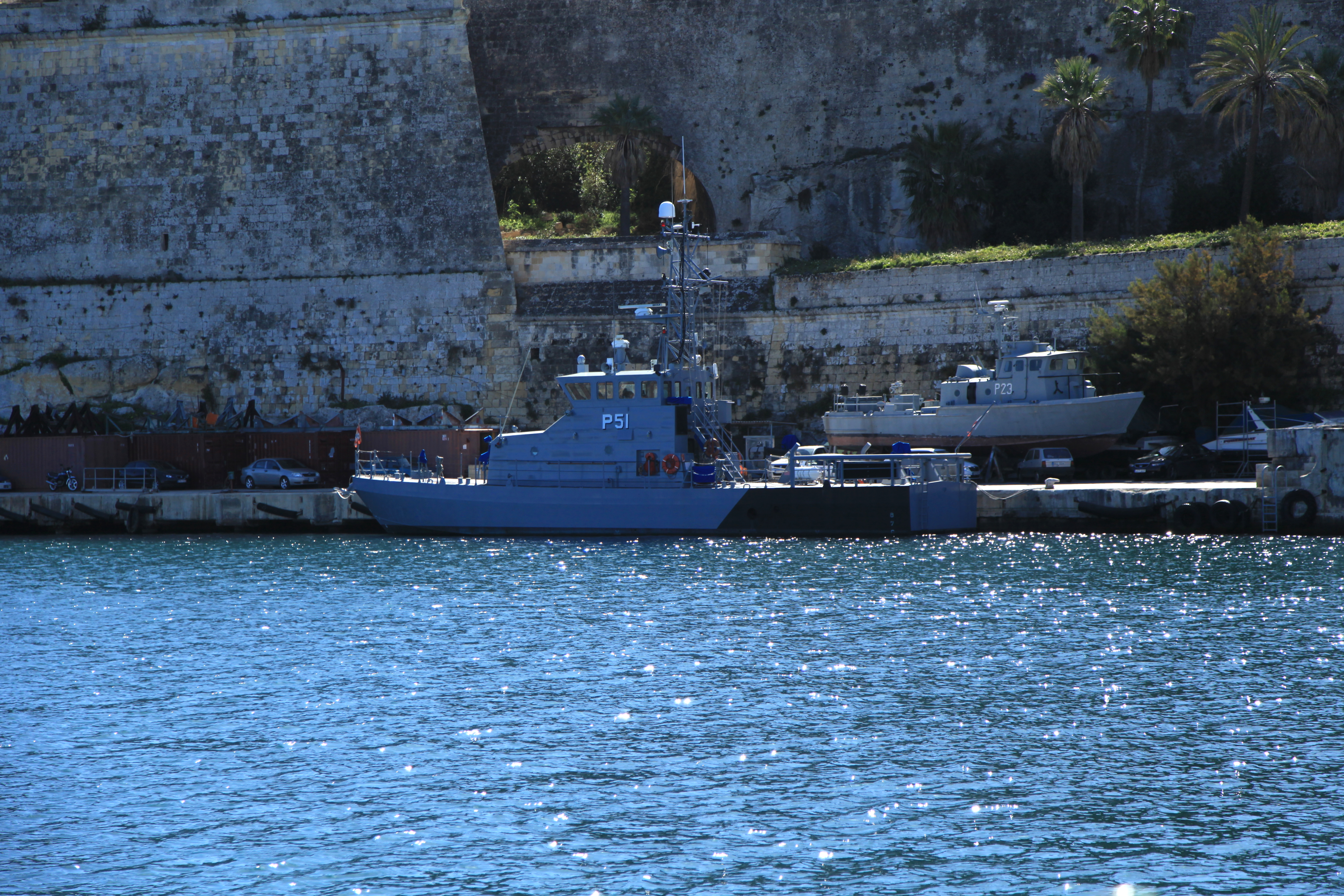 View from a Malta sightseeing two harbours cruise boat to Xatt it-Tiben in Floriana, Malta